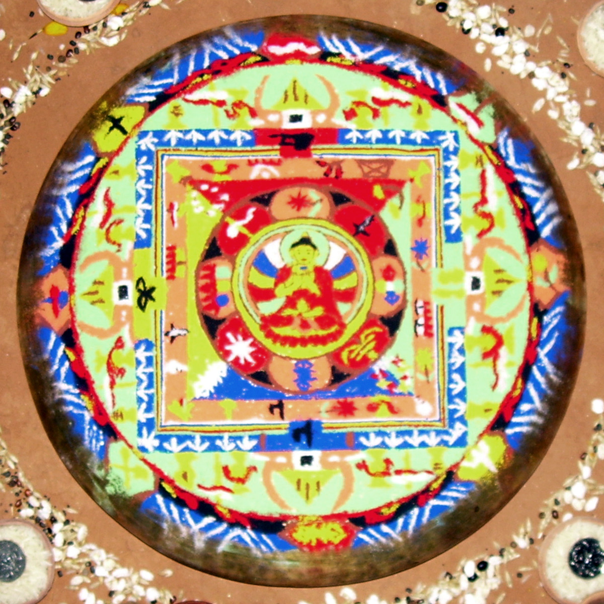 Newar Buddhists of Nepal make a mandala (sand painting) depicting the Buddha as part of the death rituals on the third day after death and preserve it for four days.